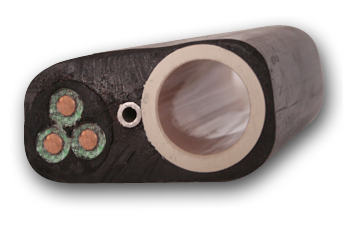 A picture of a FLATpak coiled tubing umbilical configured for an Electric Submersible Pump